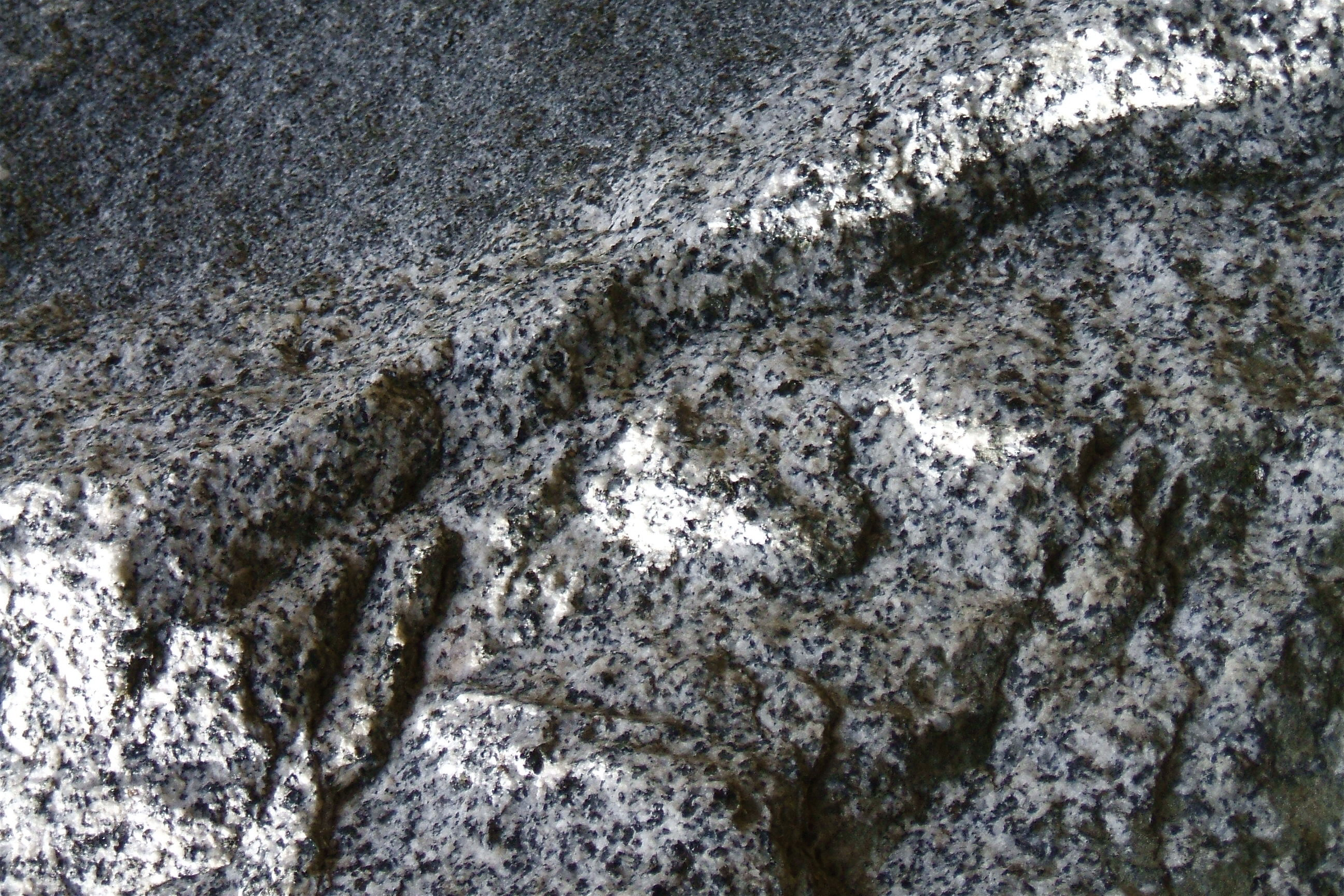 A boulder of granodiorite near the base of Yosemite Falls in Yosemite National Park, California, USA.